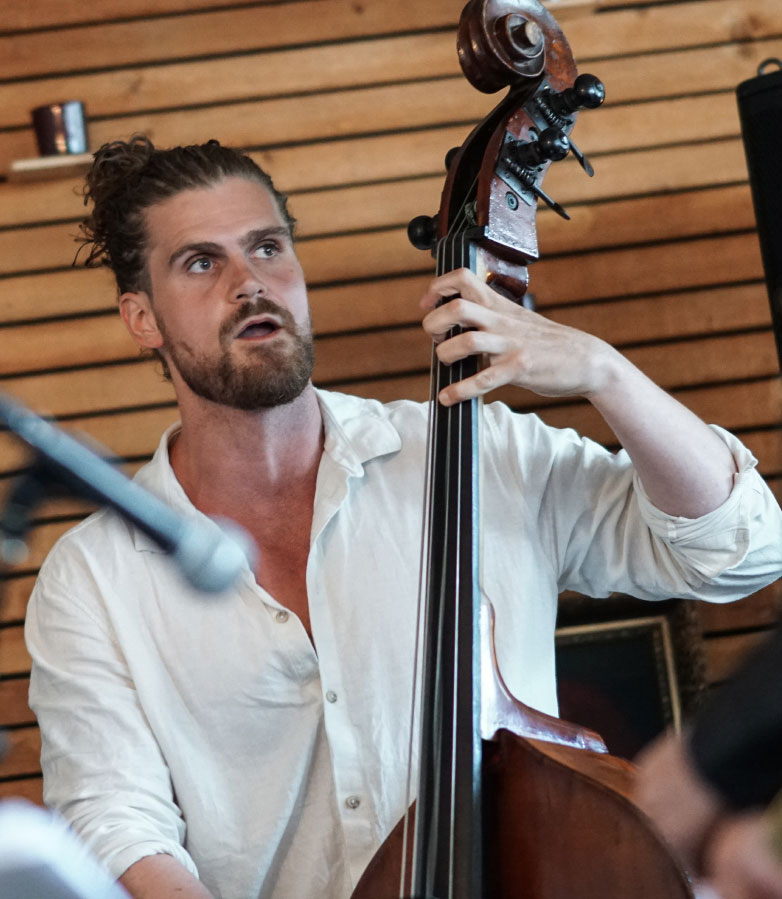 Kenneth Dahl Knudsen @ Aarhus Jazz Festival 2017